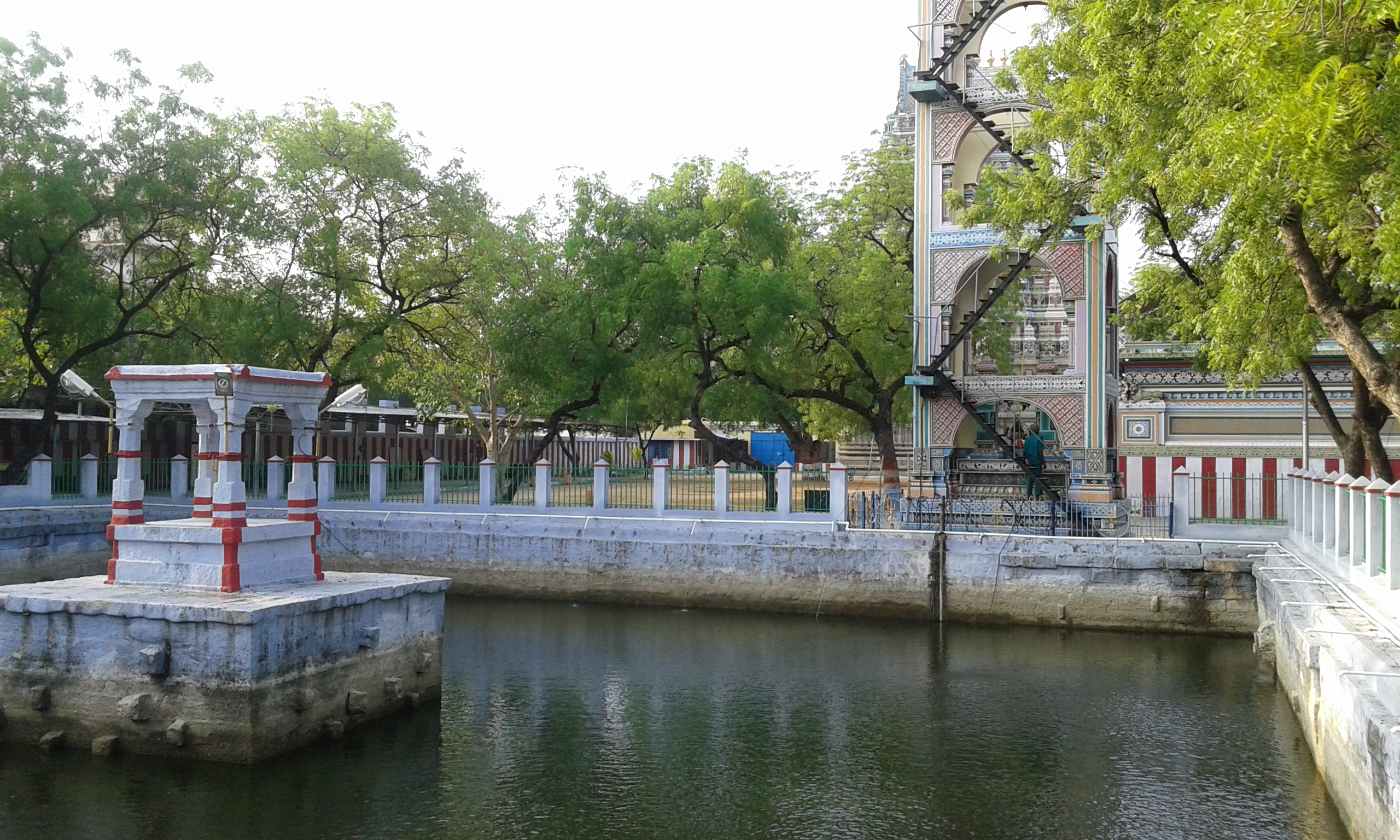 Bhadrakali Amman temple, Sivakasi